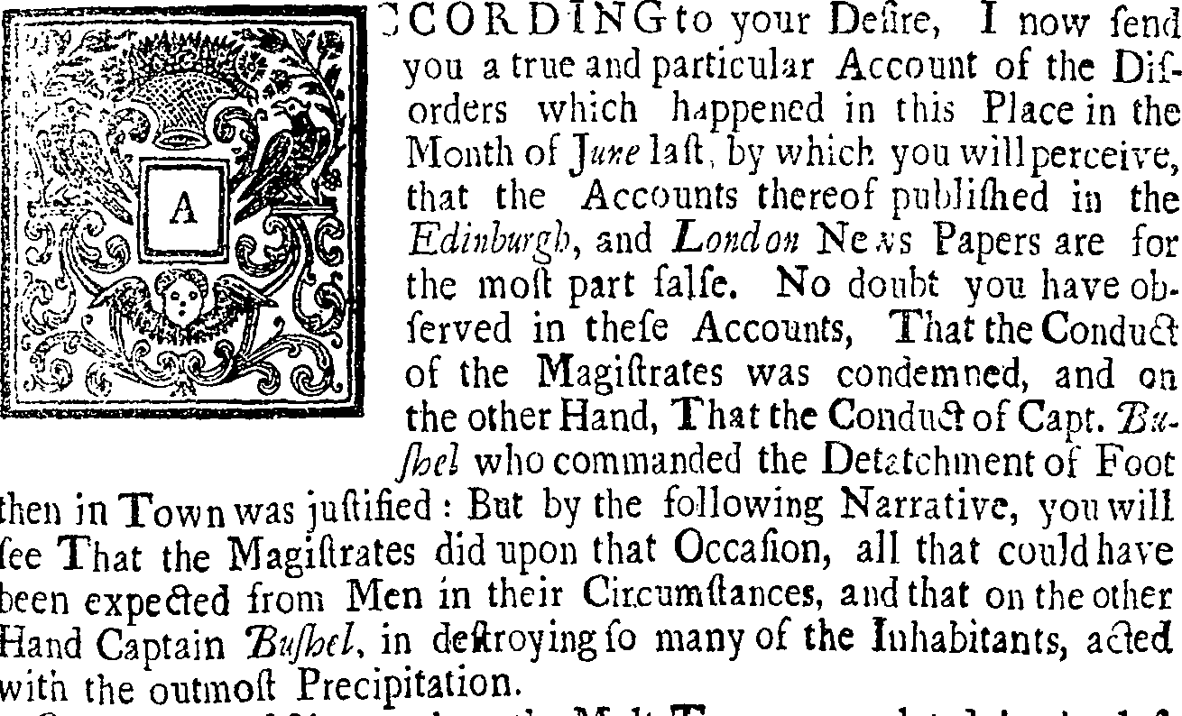 Fleuron from book: A letter from a gentleman in Glasgow, to his friend in the country, concerning the late tumults which happened in that city. Containing a true account of the plundering of Daniel Campbell of Shawfield's House, the murder of the inhabitants by Capt. Bushell, ...